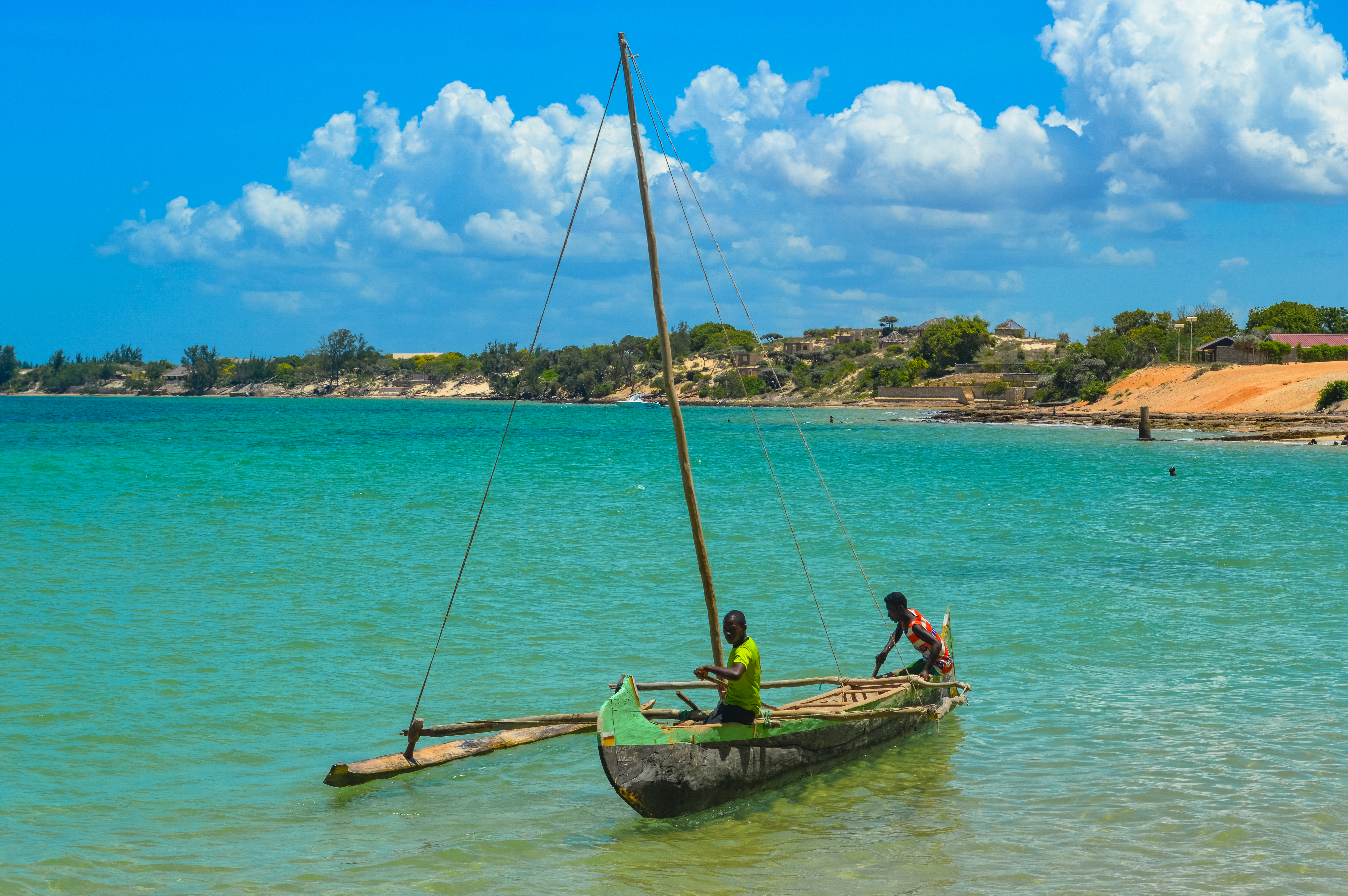 This is an image with the theme "Africa on the Move or Transport" from: Madagascar